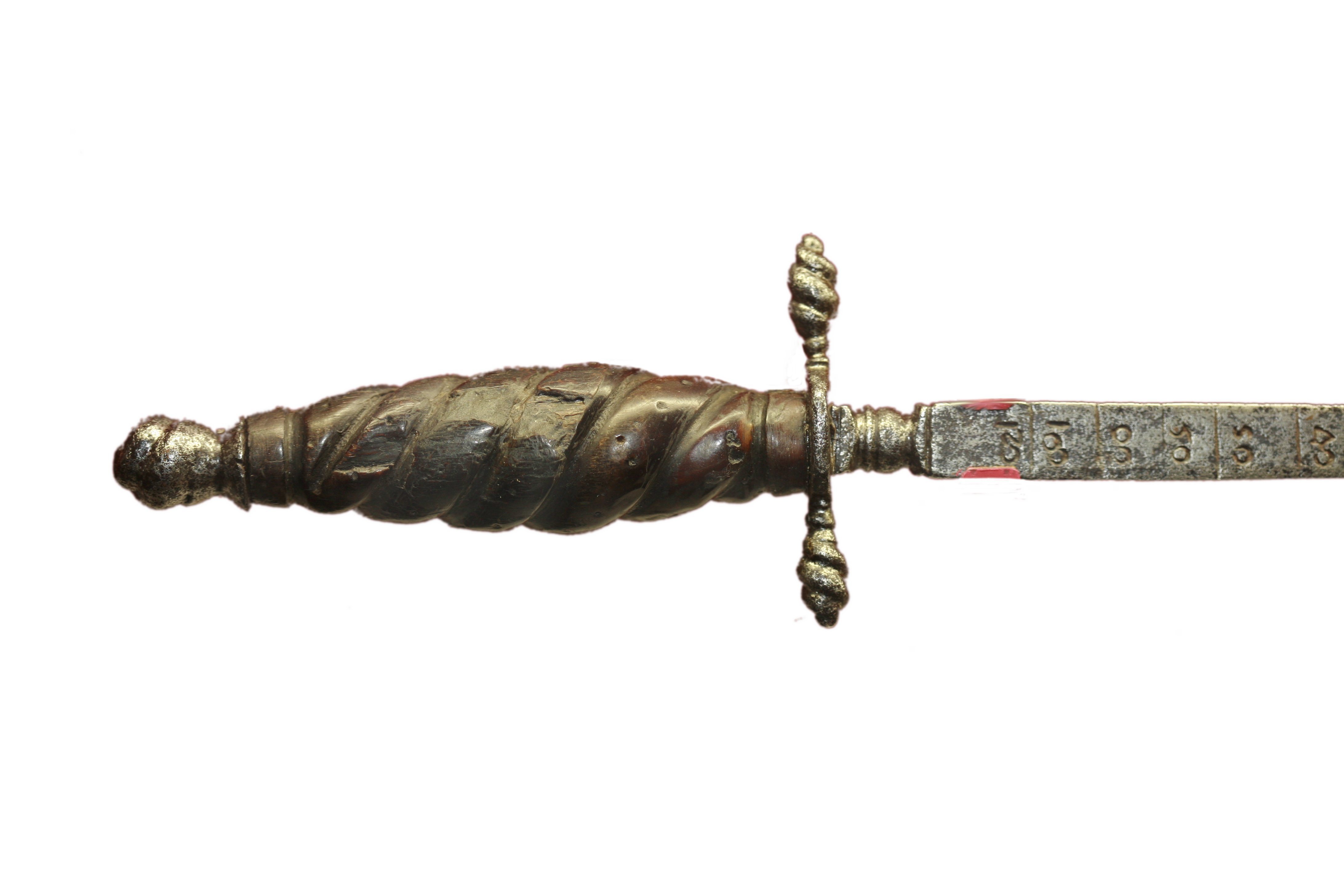 Artillery dagger. The blade is graduated and serves as an aid to battery operations.